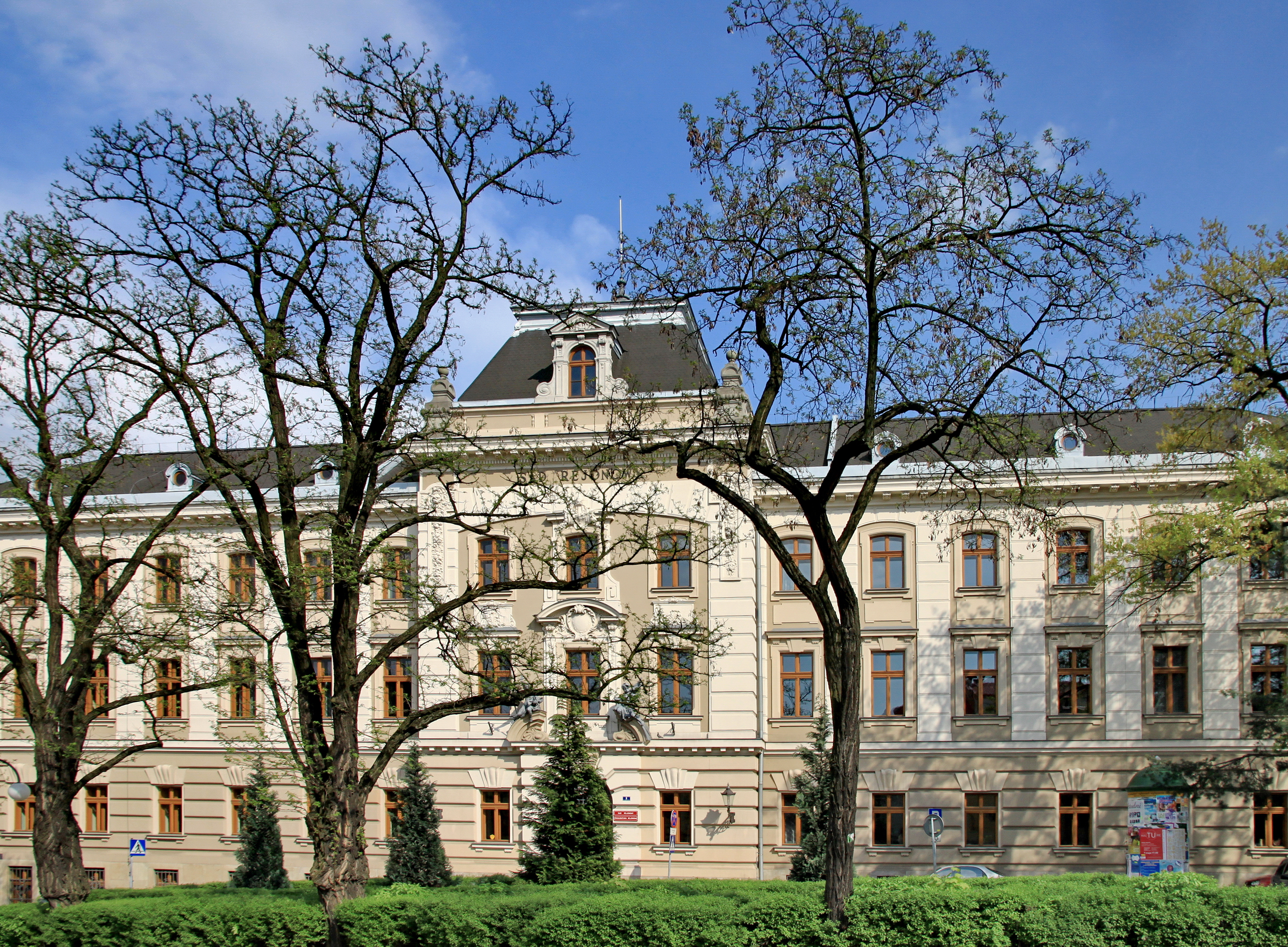 Cieszyn, district court, build in 1905